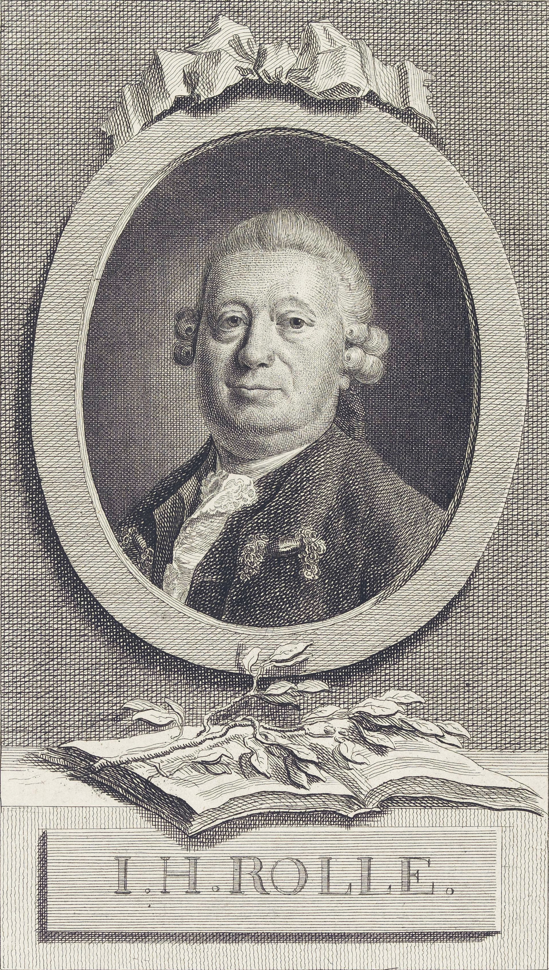 Depicted person: Johann Heinrich Rolle